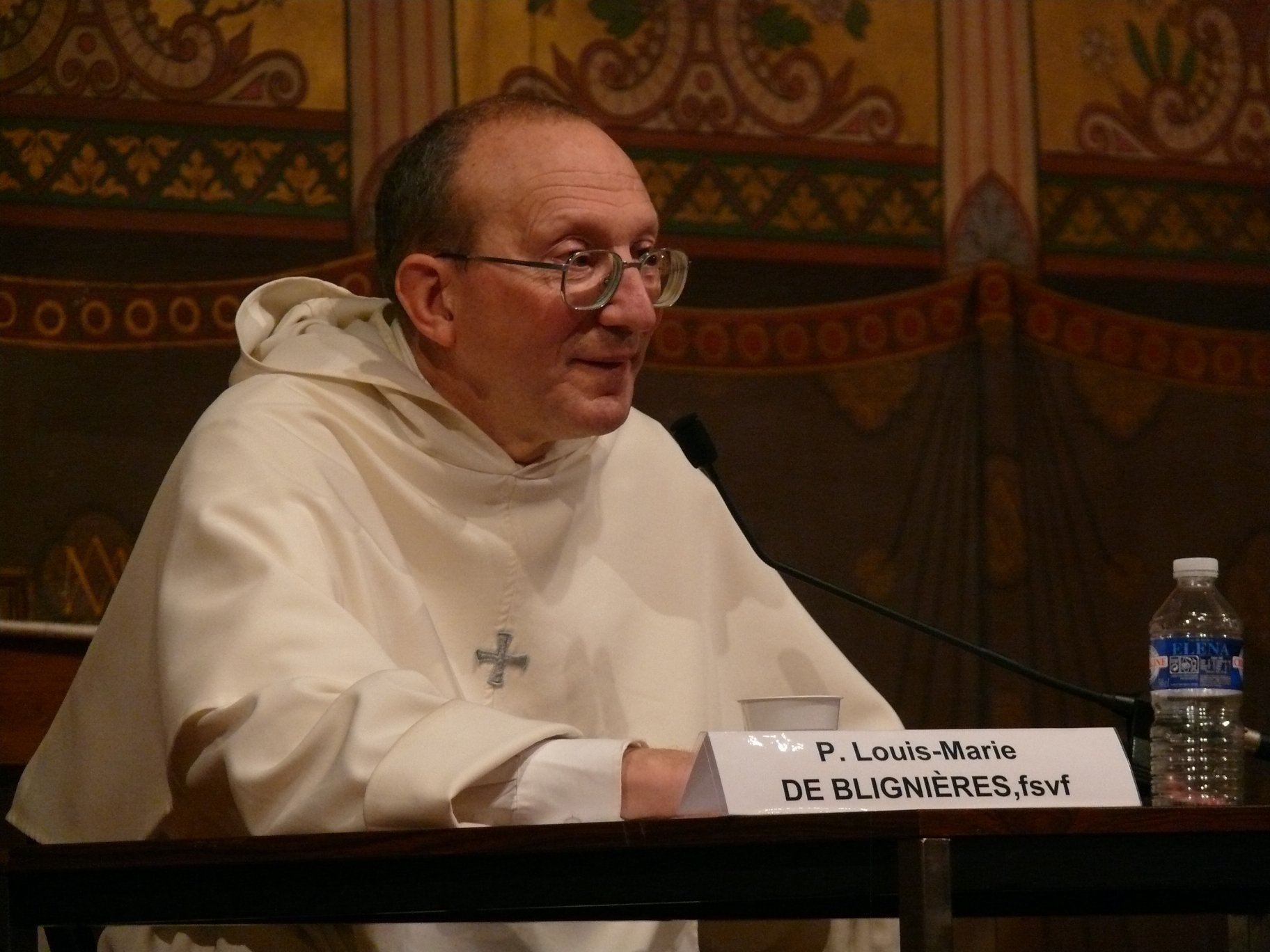 Father Louis-Marie de Blignières in Saint-Augustin's church, in Paris (France).